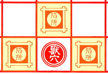 One section of a paper board of the Chinese board game Dou Shou Qi known in English as Jungle.